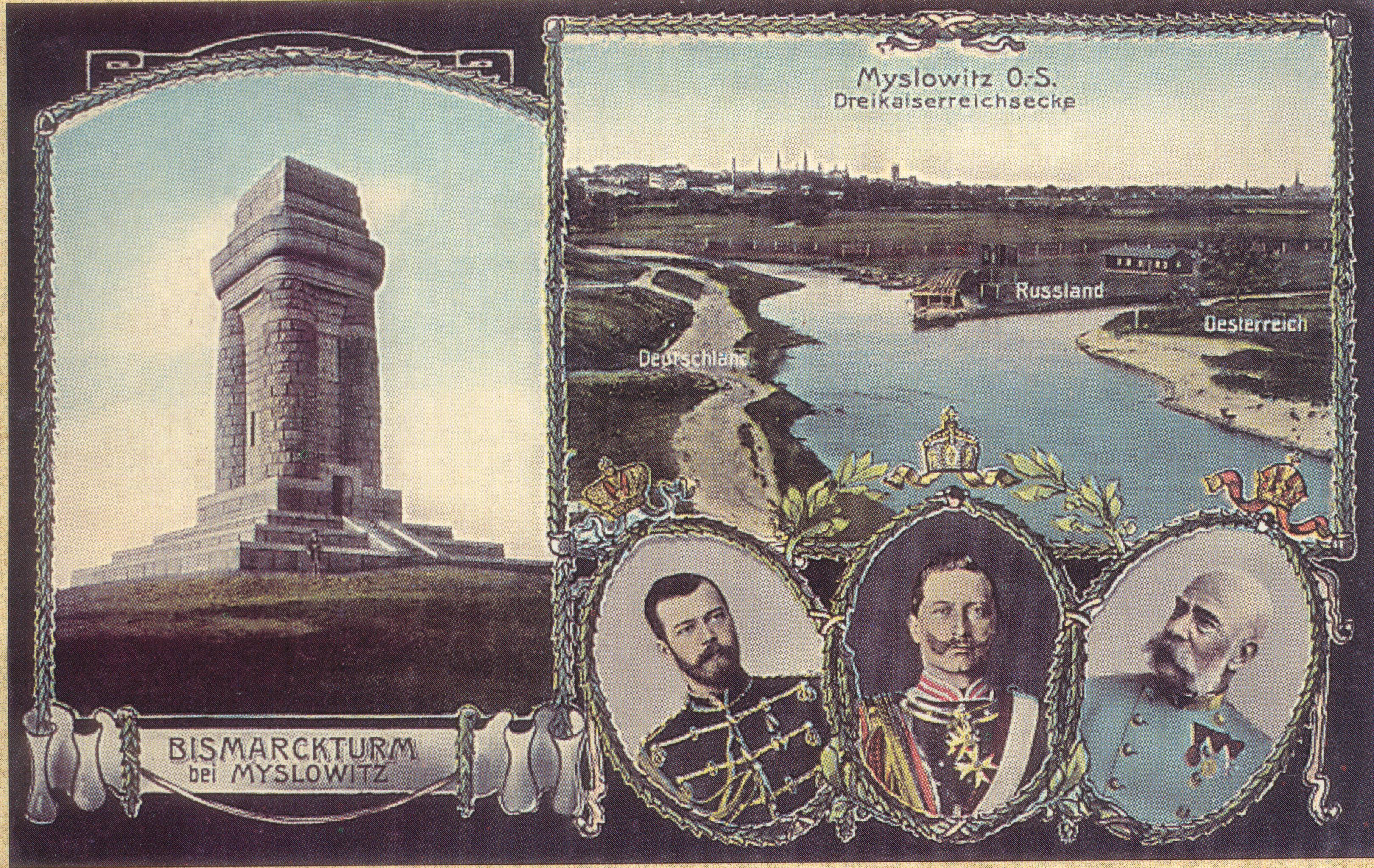 Triangle of three emperors, Mysłowice/Sosnowiec (Poland). Three emperors from the left: Nicholas II of Russia, Wilhelm II of Prussia, Franz Joseph I of Austria